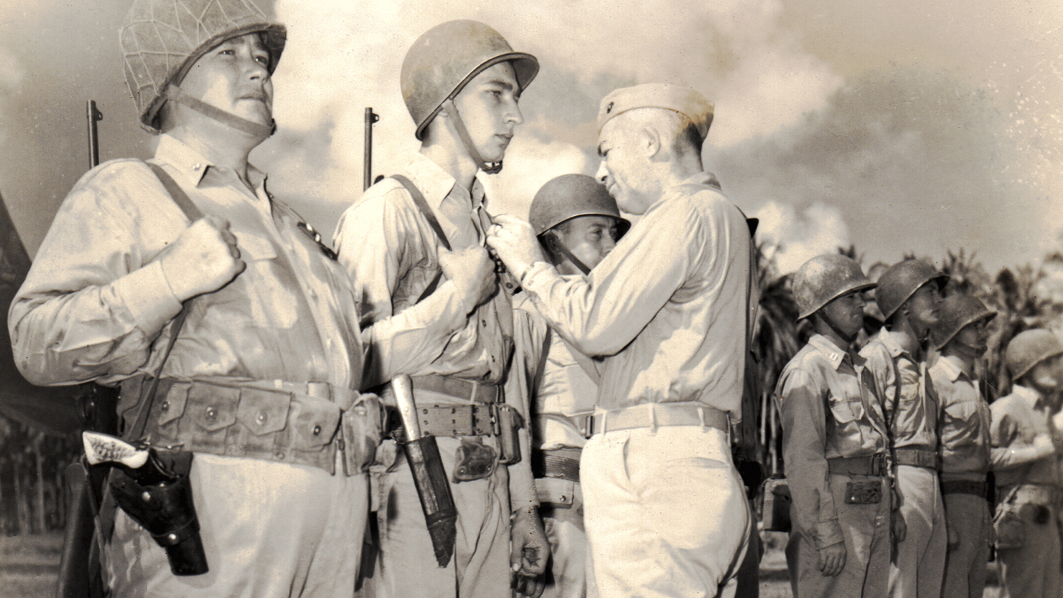 The 3rd Marines Executive officer, Lieutenant colonel George O. Van Orden (on the left) during his Navy Cross Ceremony with Major General Allen H. Turnage, commanding general, 3rd Marine Division.